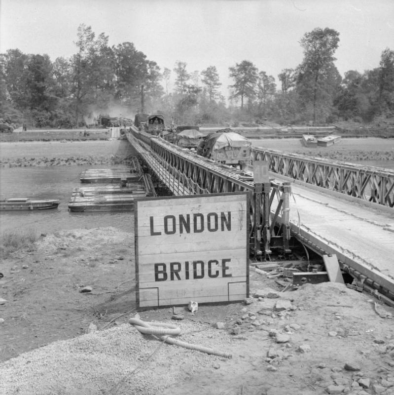 The British Army in the Normandy Campaign 1944 Transport crossing into the Orne bridgehead across 'London Bridge' during Operation 'Goodwood', 18 July 1944.